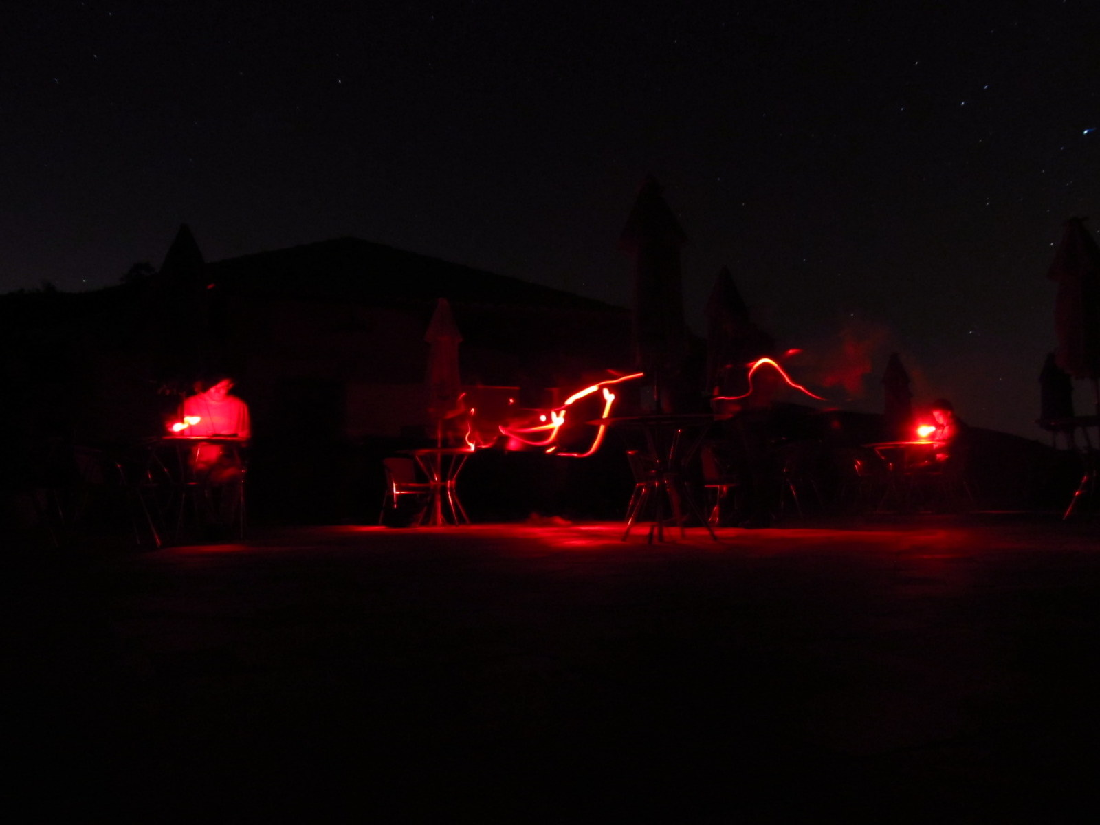 Observational Exam at IOAA 2012, in Vassouras, Brazil.